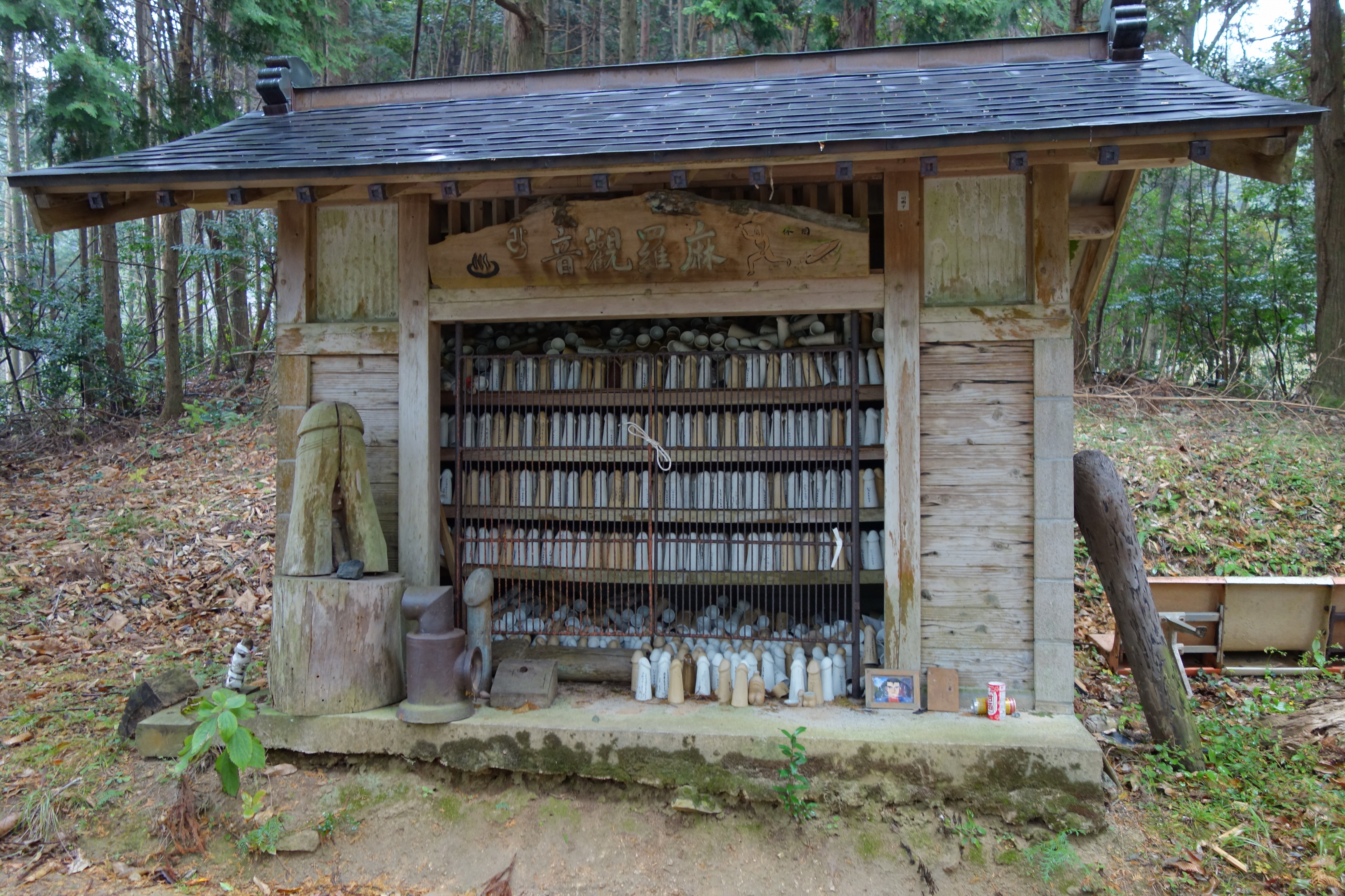 People who want babies left their wishes on those penis-type votive items.. Mara Kannon is a prayer temple for pregnancy. Outside of tawarayama-spa, Nagato-city, Yamaguchi-pref, JAPAN. Mara means penis, Kannon is one of the Buddhist gods, but he is not a sexual god. People who want pregnancy are visiting this temple. There are many stone statues of huge penis here.